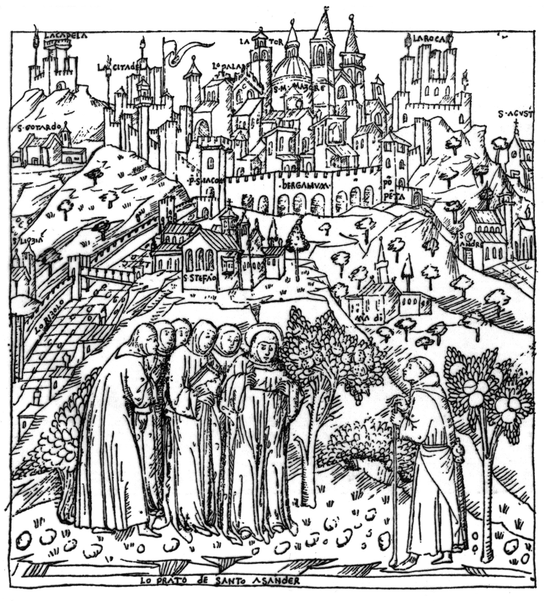 Bergamo (Italy) - 1450